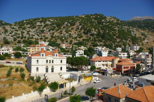 The central square in Kesab, Syria. The Armenian Evangelical church to the left, the Gala district to the right and Mount al-Aqraa (Casius) in the background.